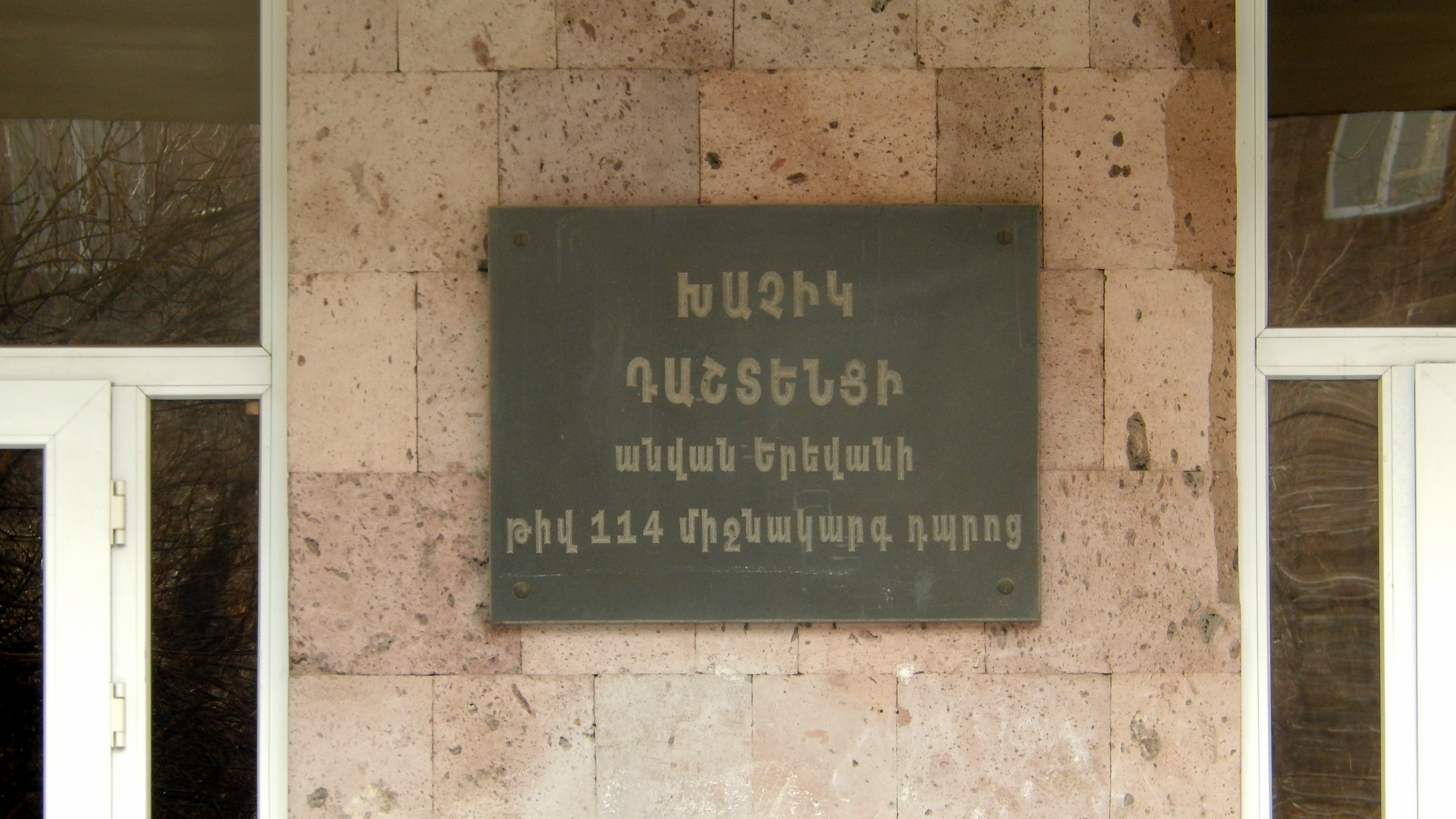 Khachik Dashtants school